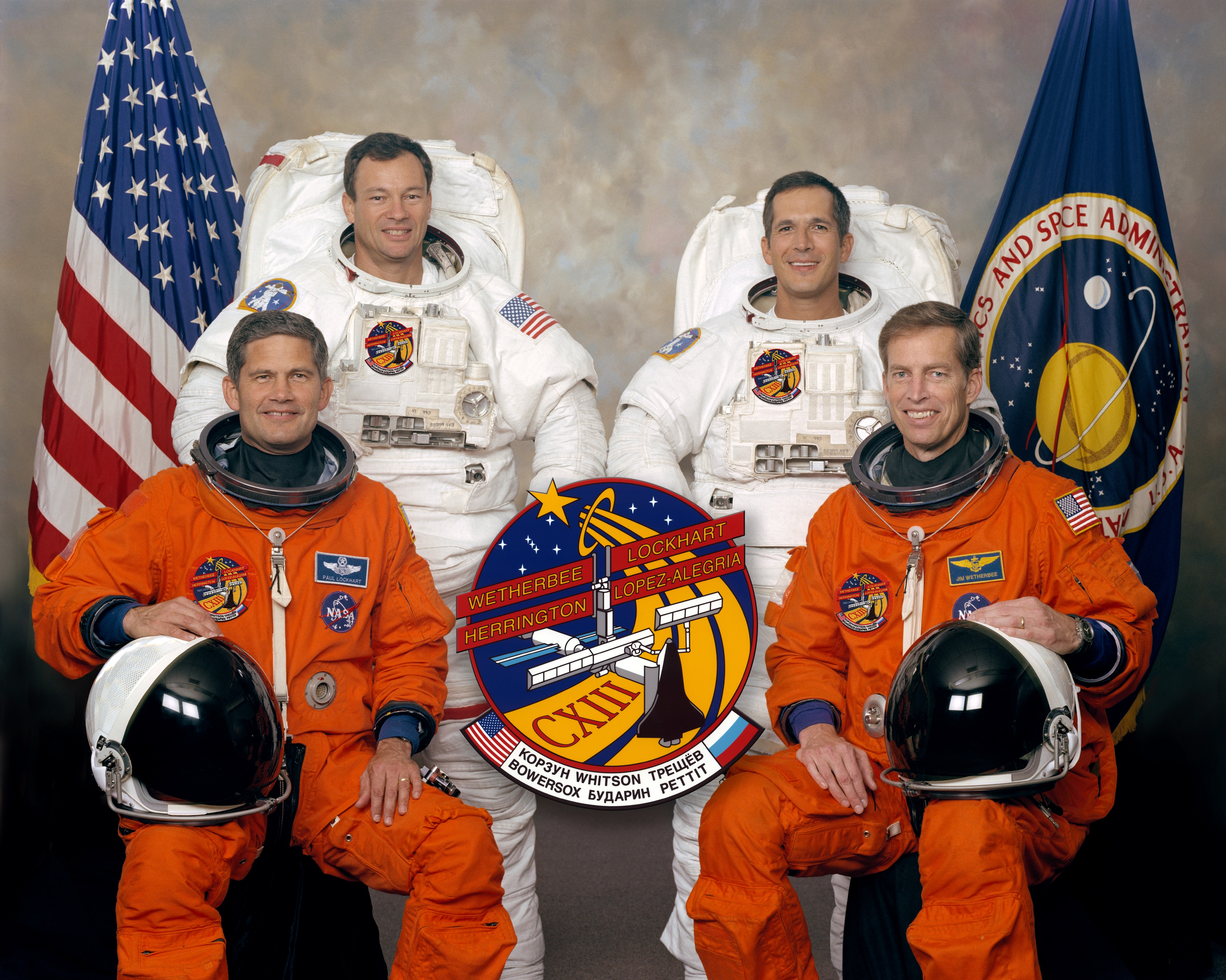 Crew photo of STS-113 In front are astronauts James D. Wetherbee (right) and Paul S. Lockhart, commander and pilot, respectively. Attired in training versions of the extravehicular mobility unit (EMU) space suits are astronauts Michael E. Lopez-Alegria (left) and John B. Herrington, both mission specialists.